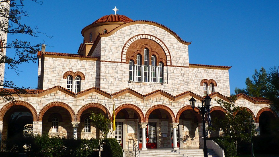 Agios Trifonas, Pallini